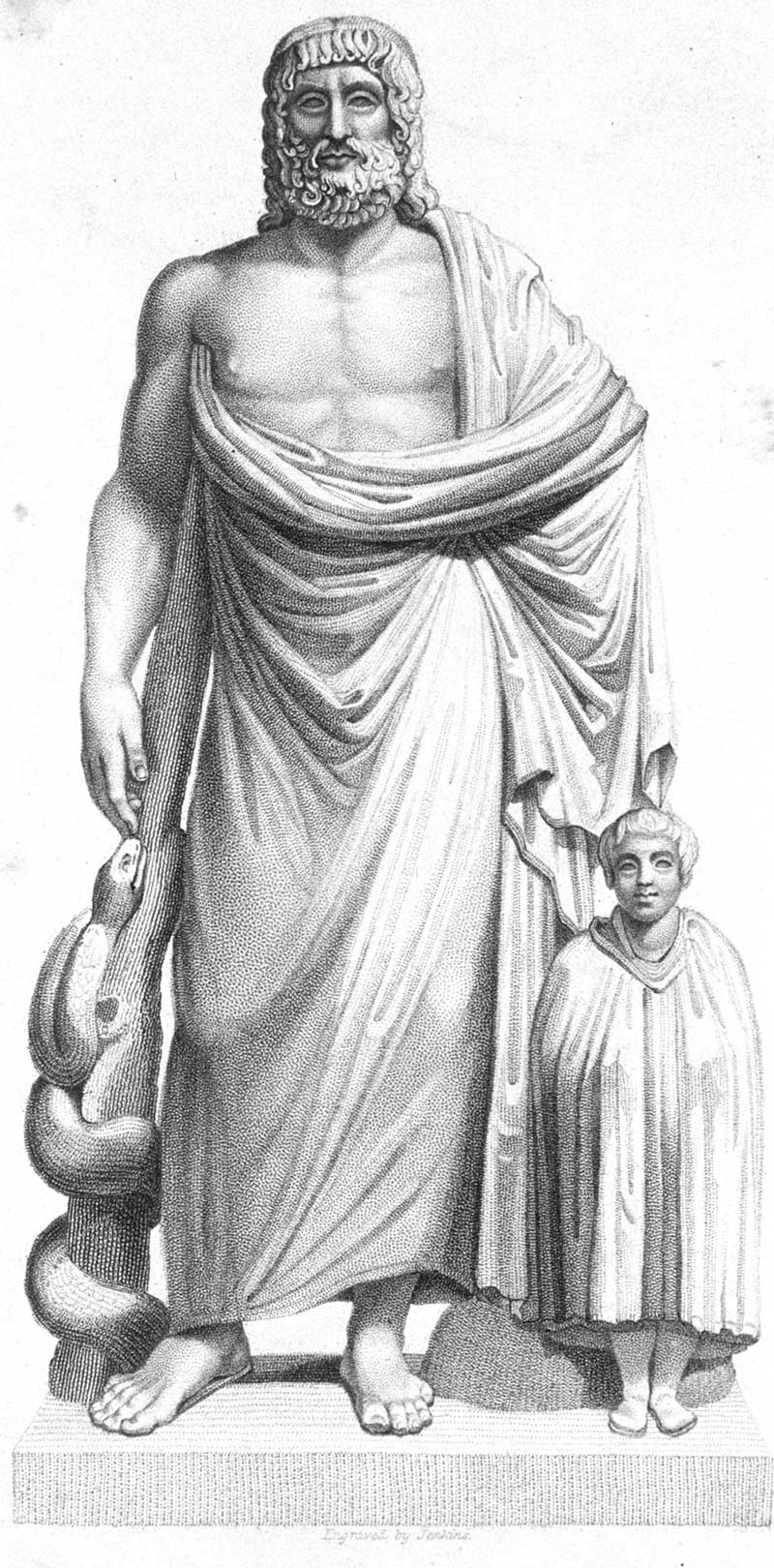 Asclepius, from the marble statue in the Louvre. Engraving by Jenkins. (London?, ca. 1860)